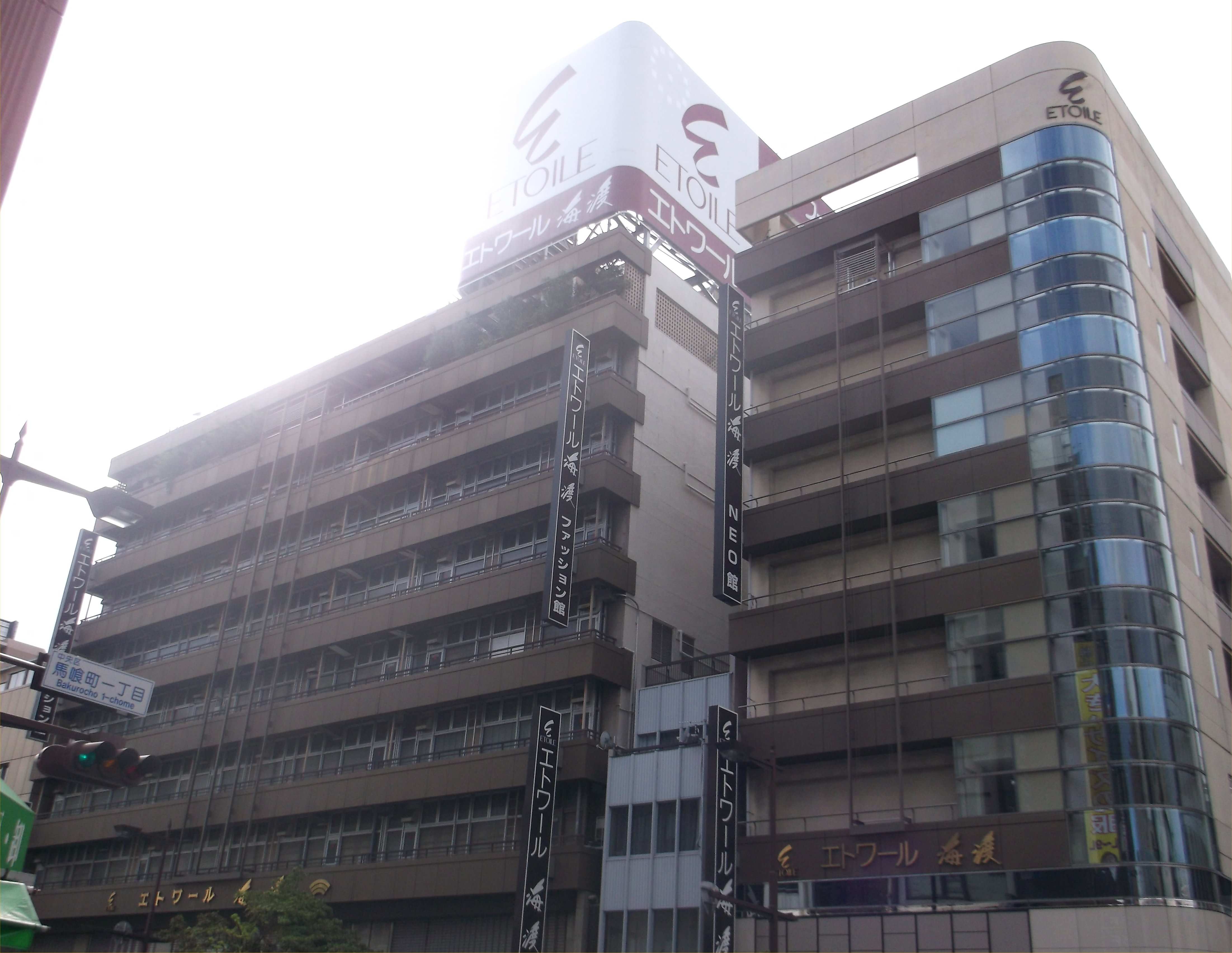 A photo of"Etoile Kaito"(a wholesale firm of clothing)Nihonbashibakurocho,Chuo-ku,Tokyo,Japan.